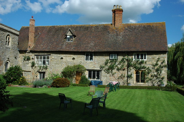 Priory Farmhouse, Deerhurst, Gloucestershire, seen from west-northwest. The house adjoins the priory church of St Mary (left). The house was built in phases from the 14th century onward. It probably stands on the site of the cloisters of the former Benedictine priory.